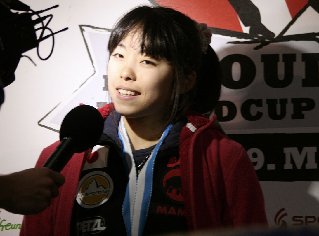 Momoka Oda, 2nd placed at the IFSC Boulder Worldcup Vienna 2010.